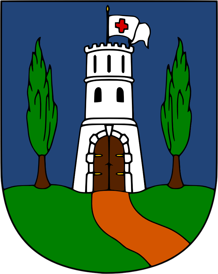 Old Coat of arms of Herceg Novi. Was in use before the World War 2.